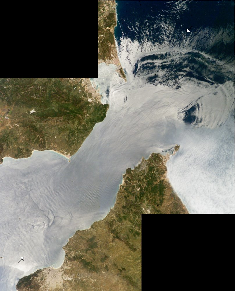 Mosaic of two astronaut photographs of the Strait of Gibraltar, with arrows pointing out internal waves caused by water flowing through the Strait (bottom left, top right).